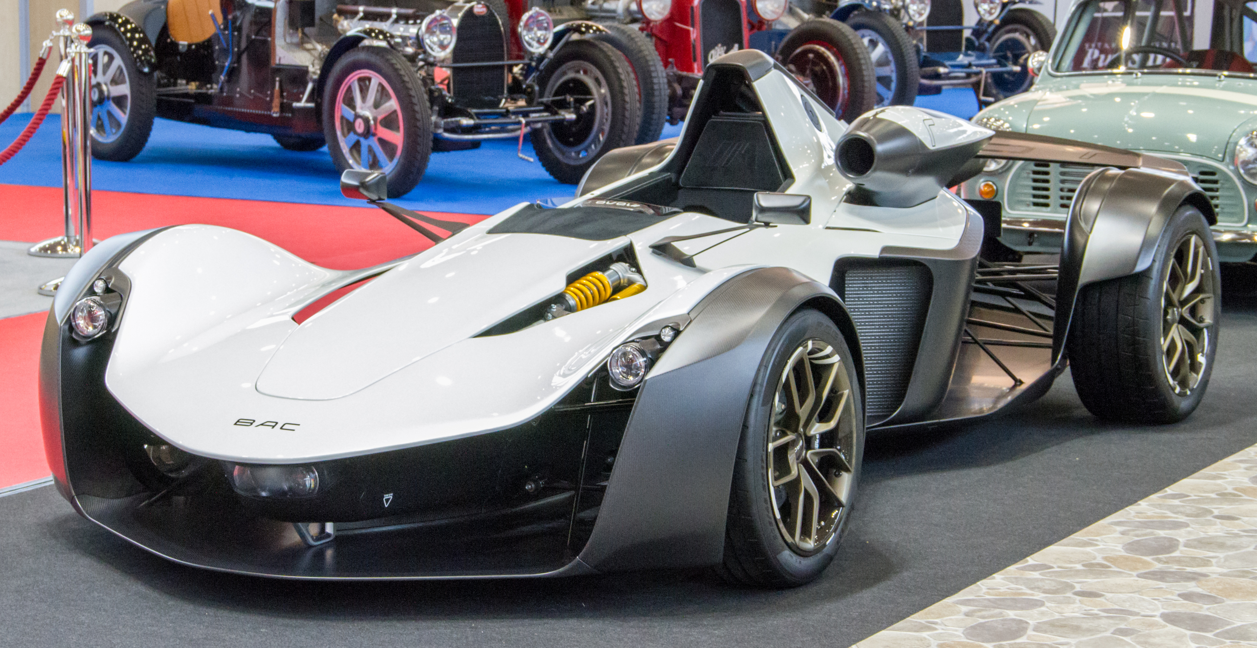 BAC_Mono_R at Retro Classics 2020